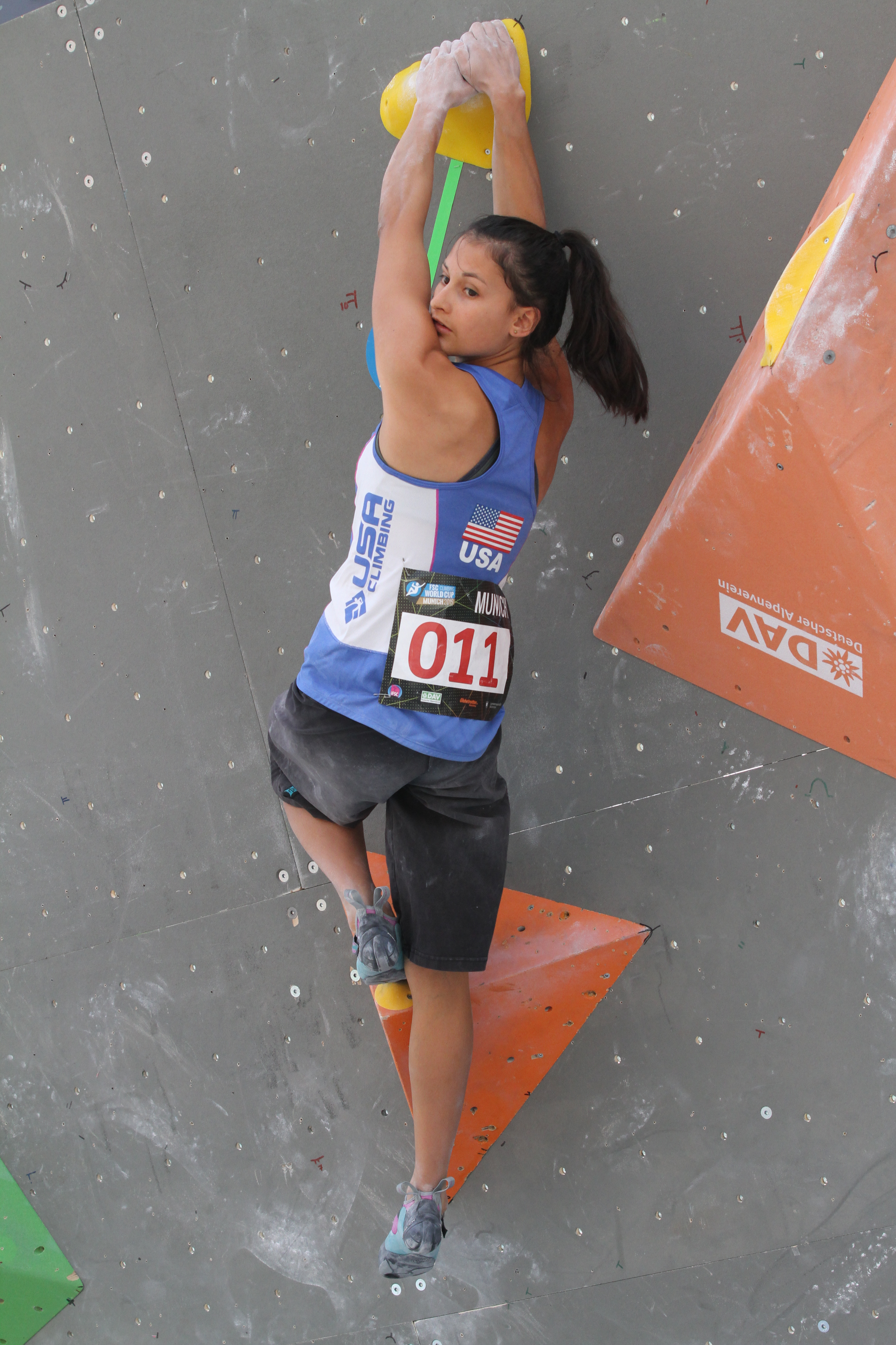 IFSC Boulder Worldcup, Munich 2015. Megan Mascarenas (USA)